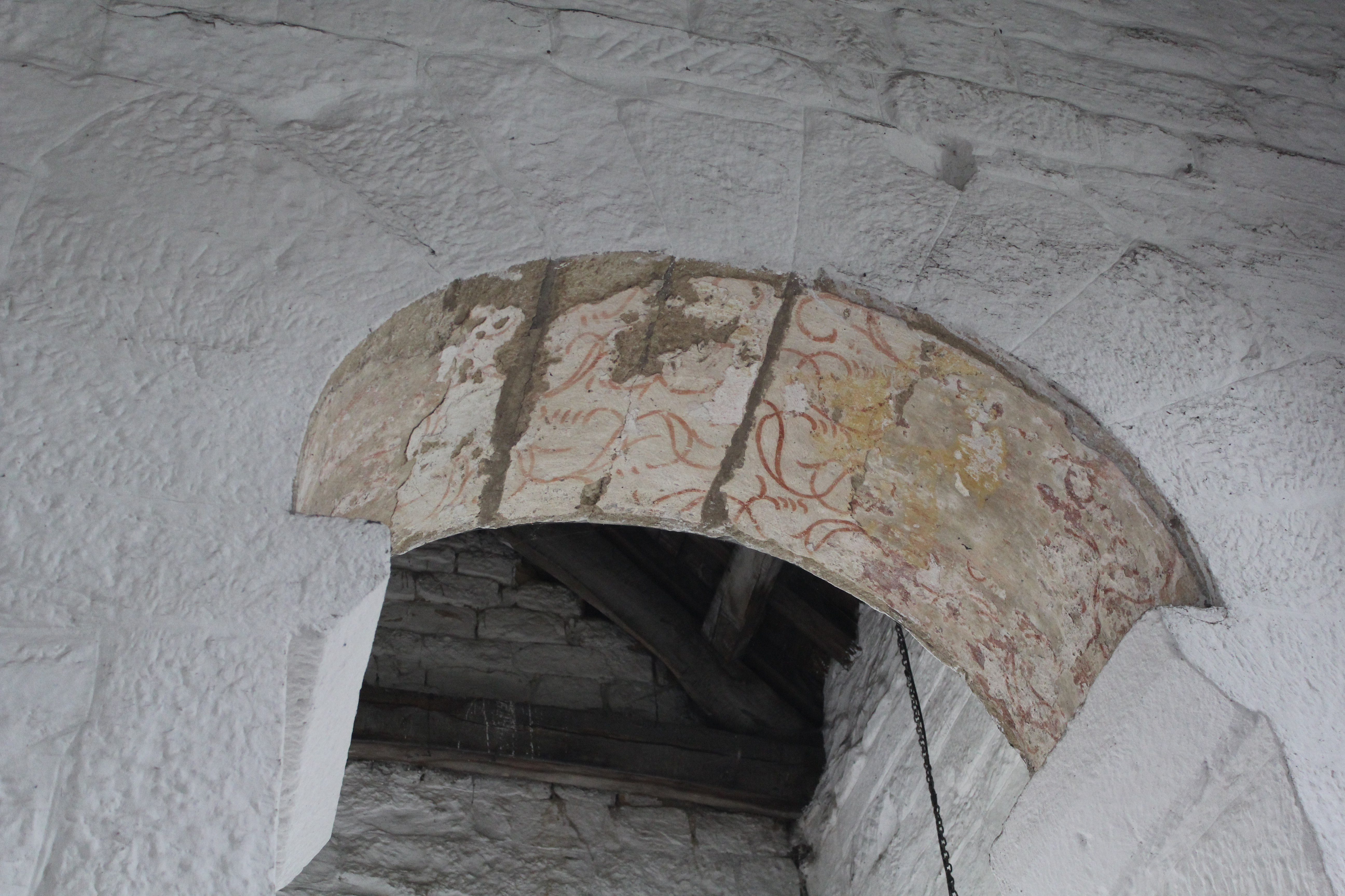 The semicircular head of the chancel arch in the Anglo-Saxon church at Escomb, County Durham